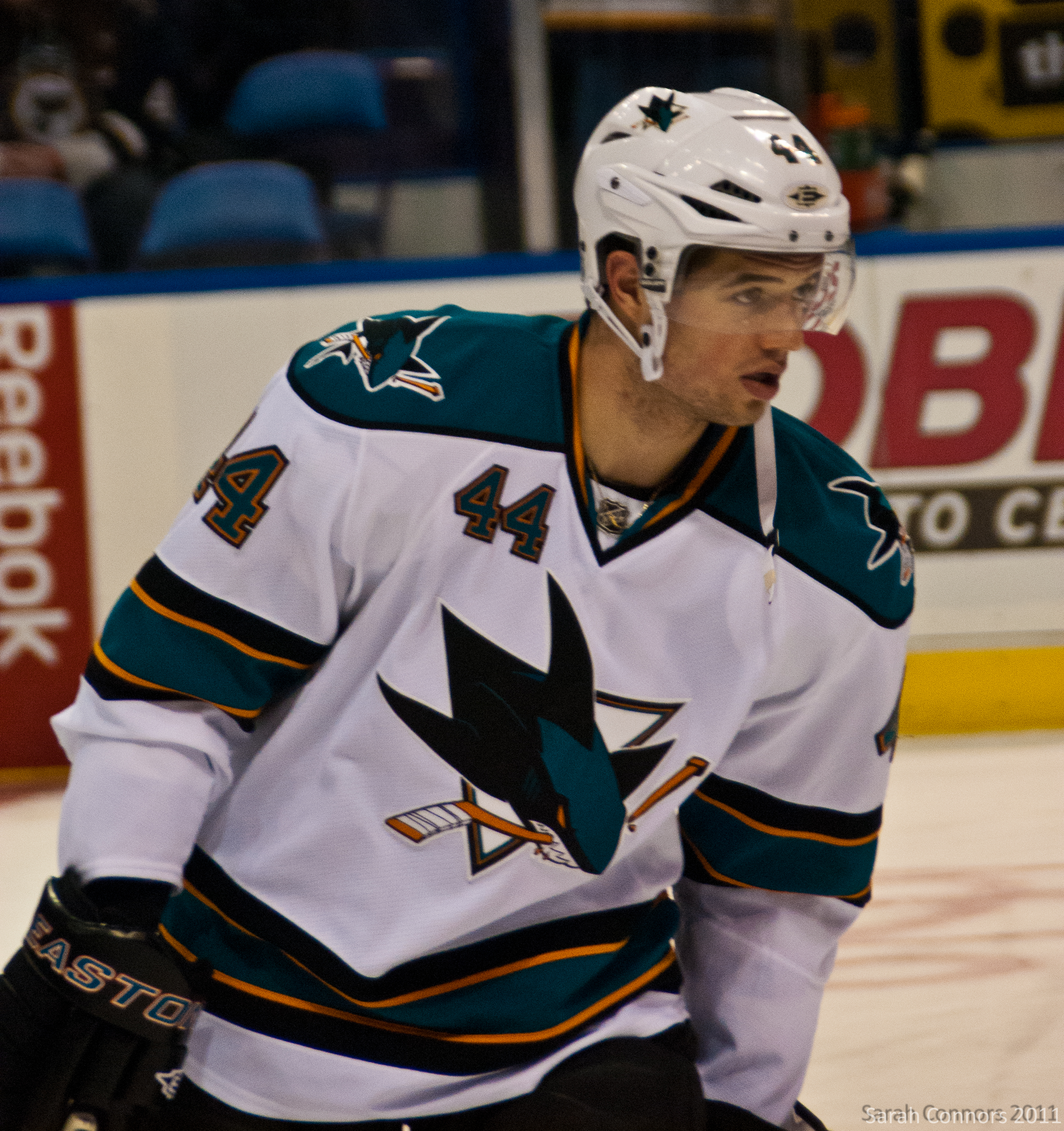 Marc-Édouard Vlasic, Canadian ice hockey defenceman